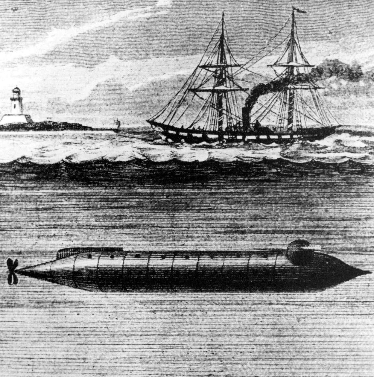 The Alligator was the first submarine purchased by the U.S. Navy. It contained two crude air purifiers, a chemical based system for producing oxygen and a bellows to force air through lime. Text & photo courtesy of chinfo.navy.mil.